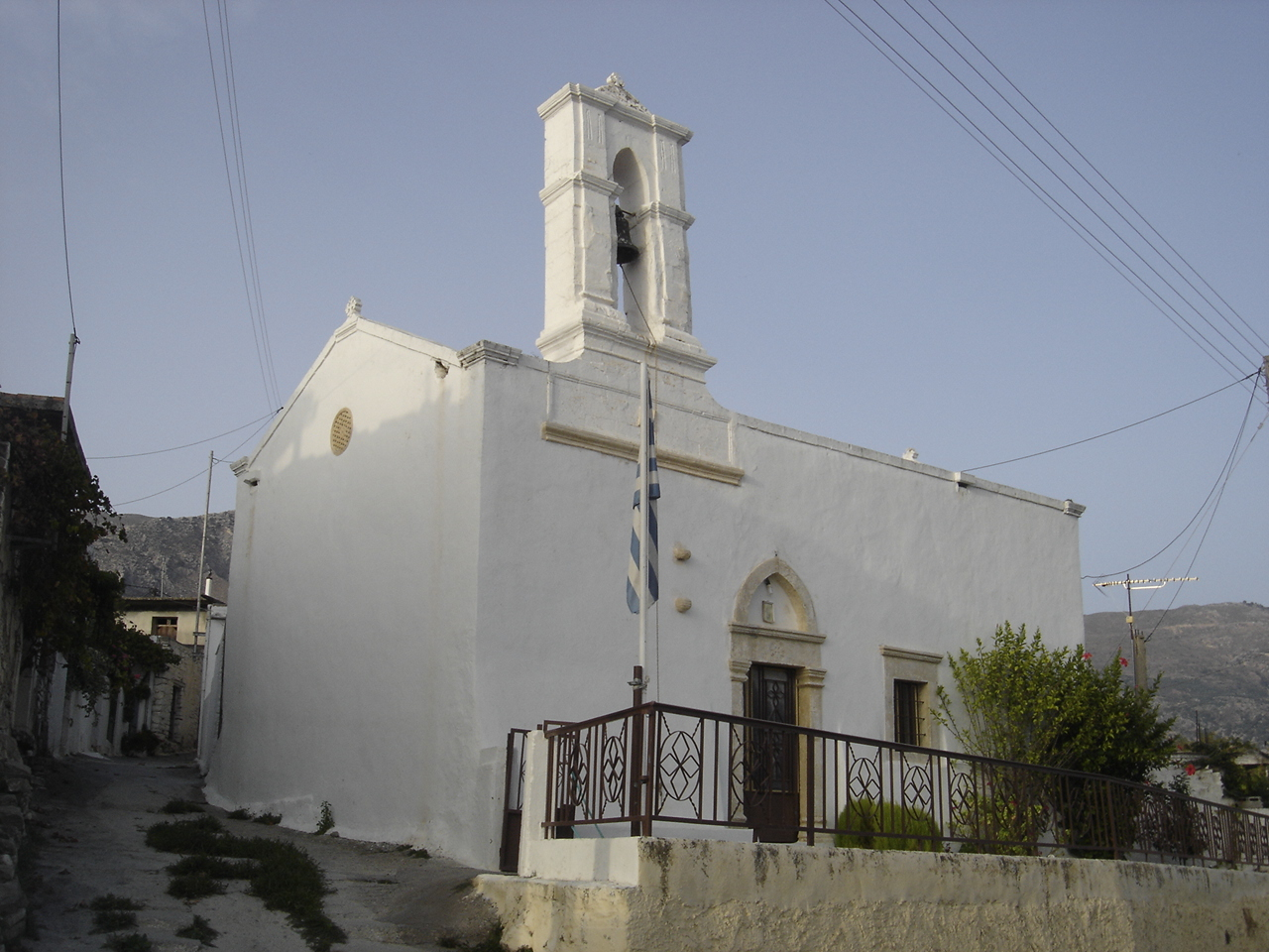 The church of Eisodia tis Theotokou in Kato Viannos.